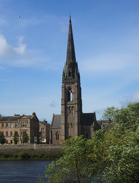 St Matthew's Church, Tay Street Looking across the Tay towards the main entrance of this church, which faces east onto Tay Street. The circular object in the sky is a mystery; I suspect it may be an escaped balloon from Perth Show, which was taking place on the South Inch one kilometre away.